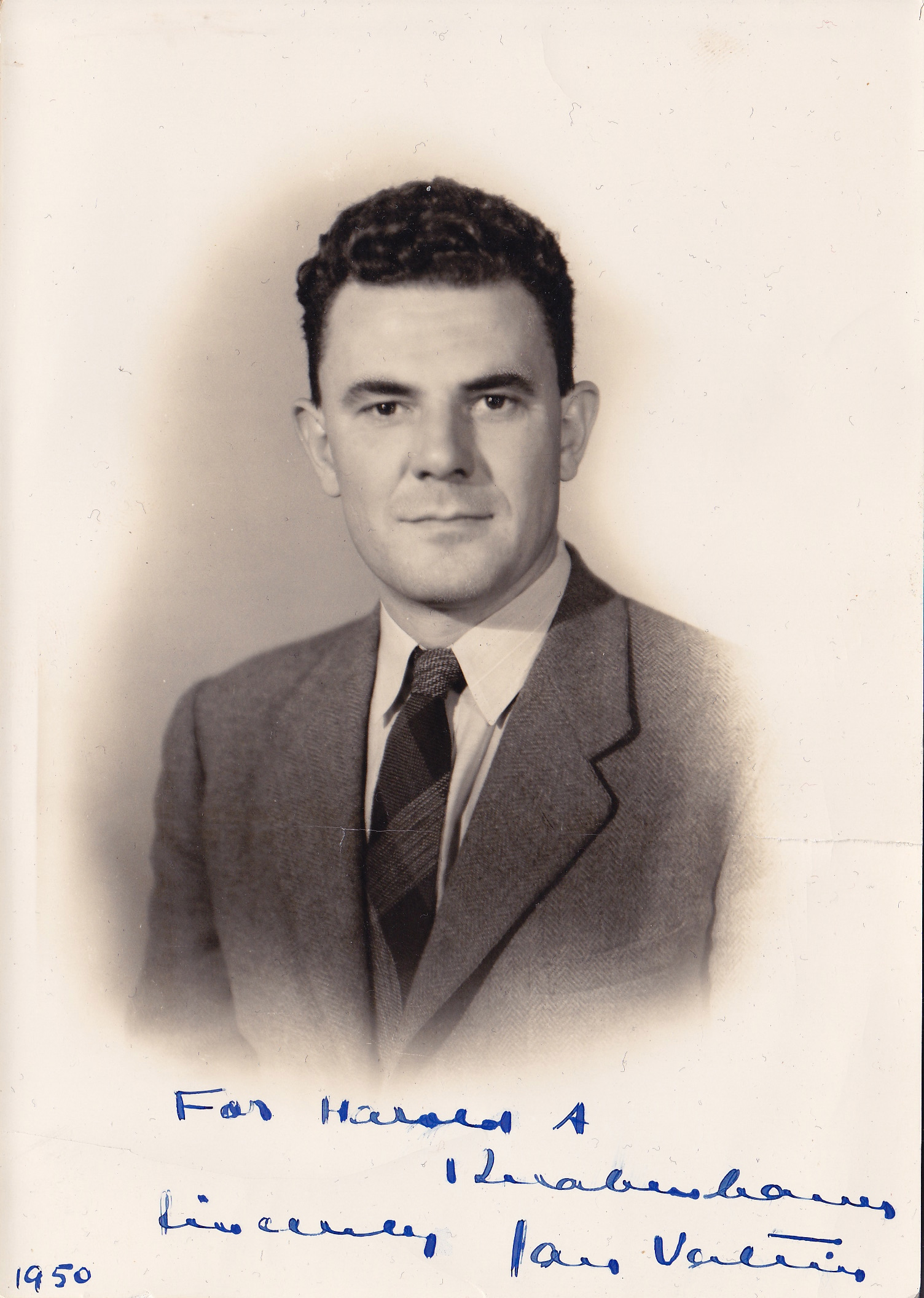 Signed photo of Jan Valtin. 1950